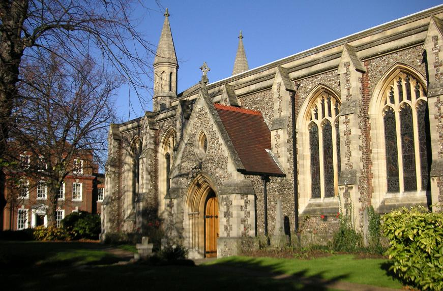 Photograph of St Peter's Church, St Albans